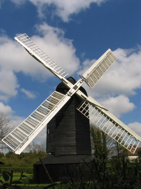 Photograph of High Salvington Windmill